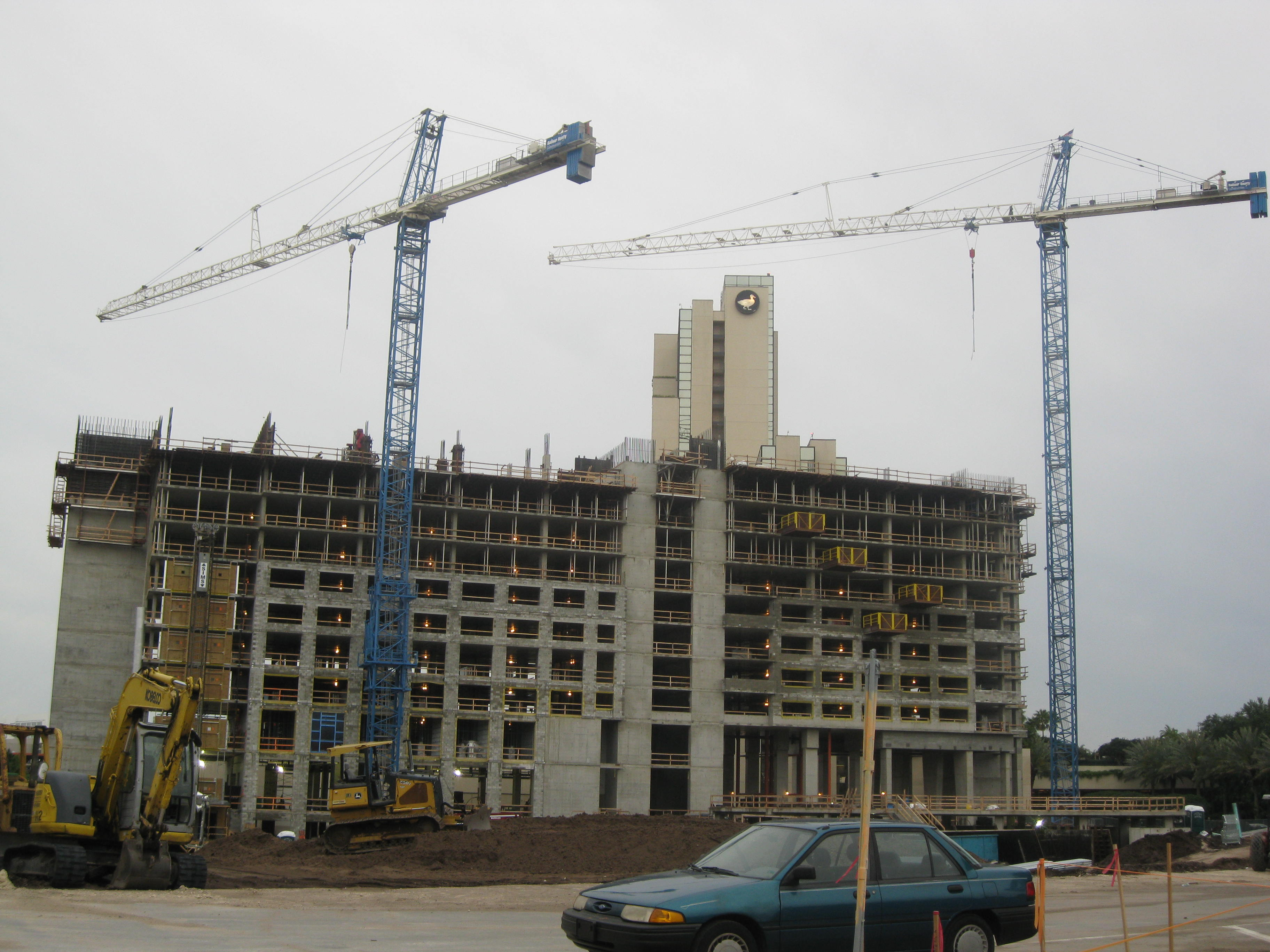 The new building while under construction at The Peabody Orlando. The original building is in the background.